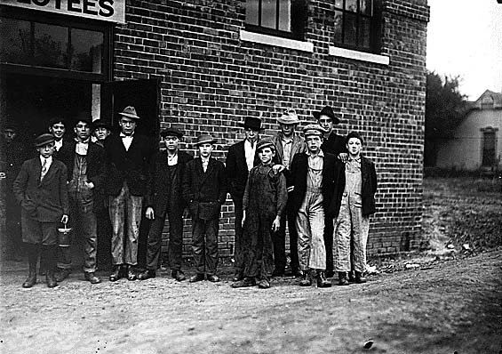 Original description: Group of men and boys at Friedman Shelby Shoe Co. The youngest, apparently 11 or 12 years old is Felber McLaughlin. One boy who said he was 14 last month and had been working there a year, was assisting at a mailing machine which seemed to be dangerous to fingers and hands at least. Kirksville, Mo., 10/31/1910. Photographed by Lewis Hine.